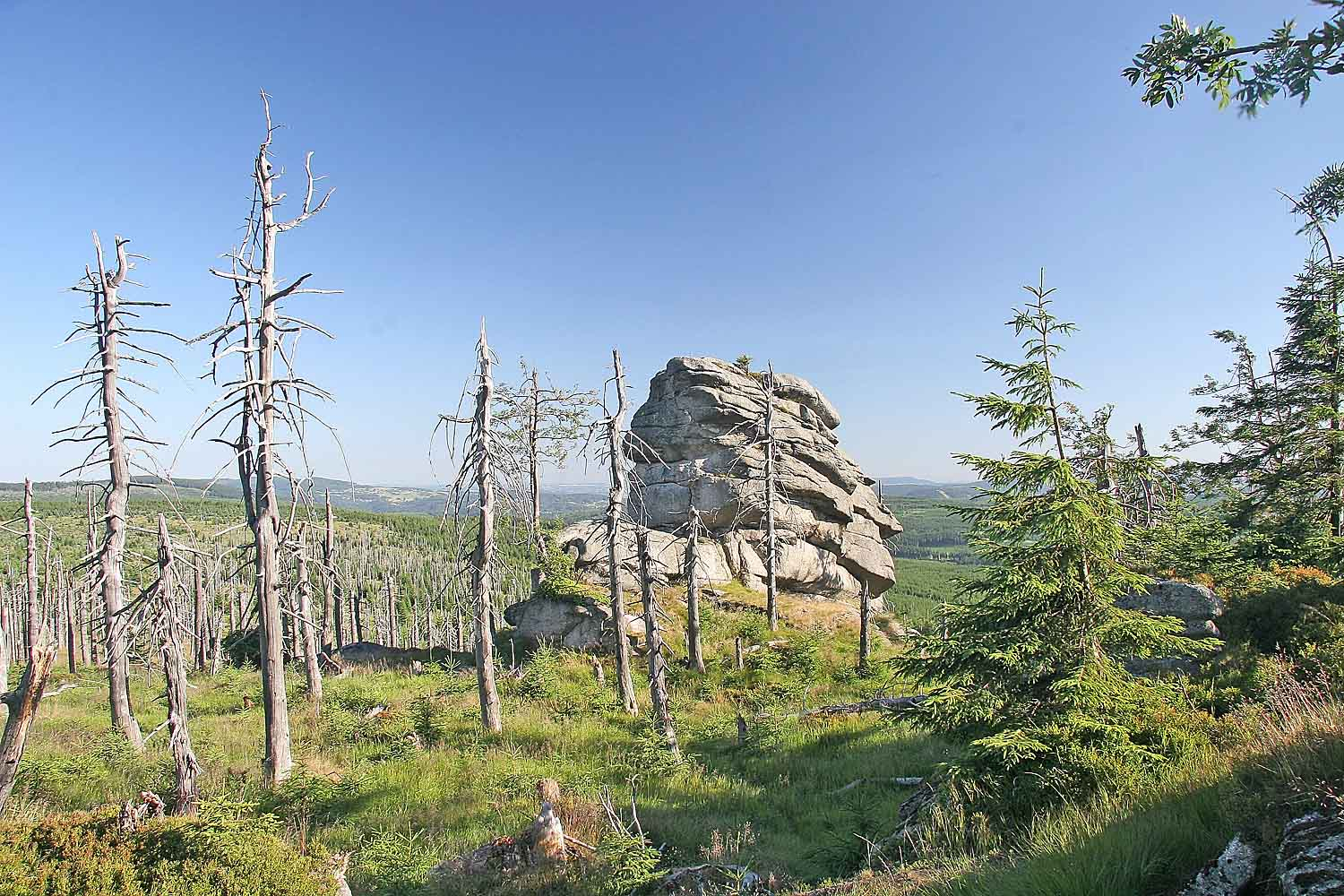 Jizera Mountains, Liberec District, Czech Republic